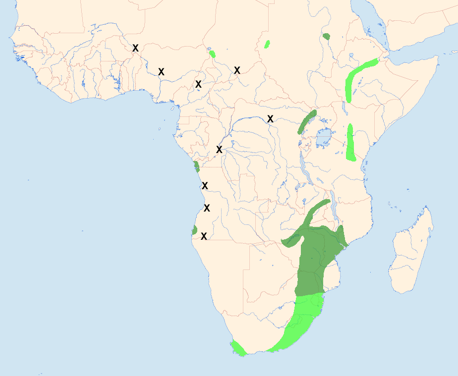 Distribution of Horus swift (Apus horus). Resident range: dark green; breeding visitor: lighter green; Some additional recordings shown with crosses. Data Source: Phil Chantler, Gerald Driessens: A Guide to the Swifts and Tree Swifts of the World; Pica Press; Mountfield 2000; ISBN 1-873403-83-6